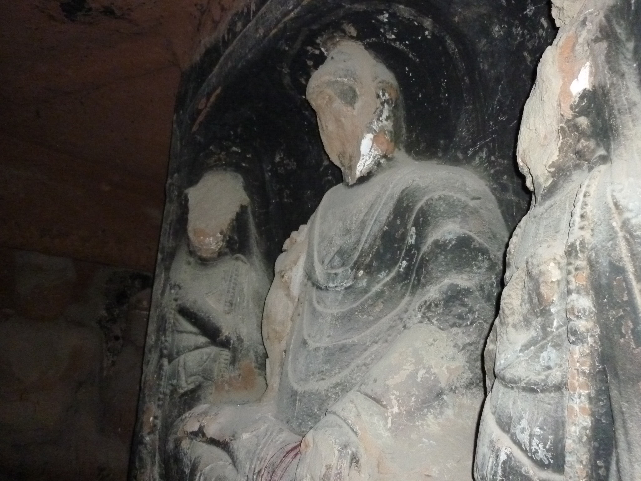 Buddhas, faces destroyed during Cultural Revolution